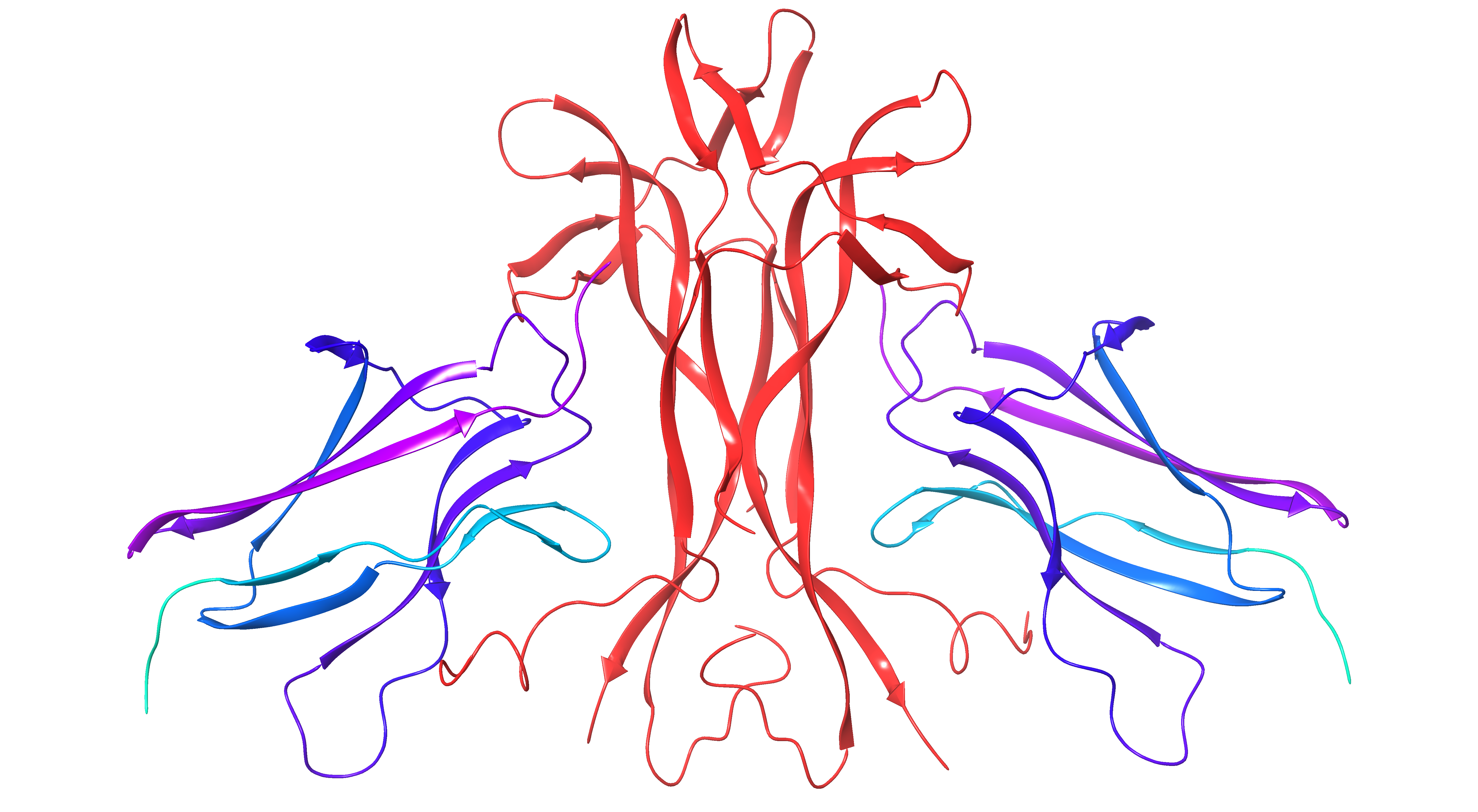 TrkA Domain 5 (purple) bound to NGF (red). Created from the PDB 1WWW (Wiesmann et al., 2001) using Maestro